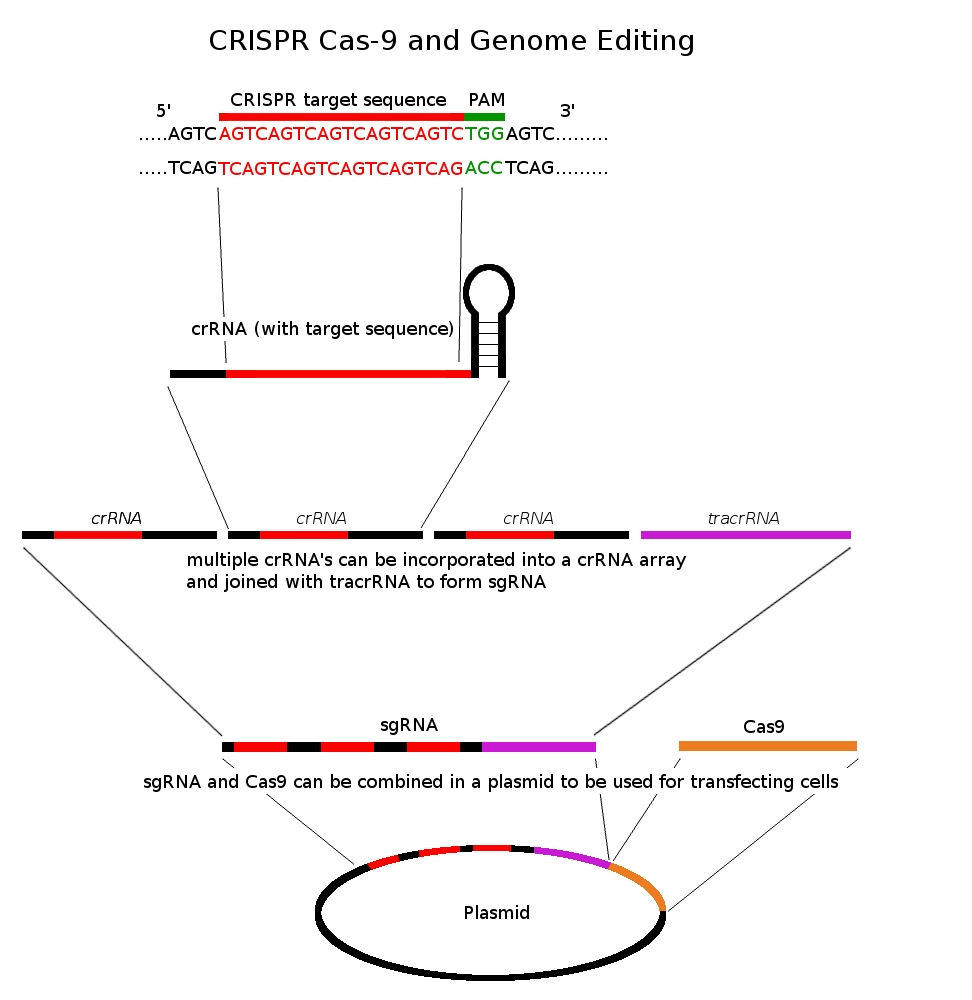 graphical overview of CRISPR Cas9 plasmid construction